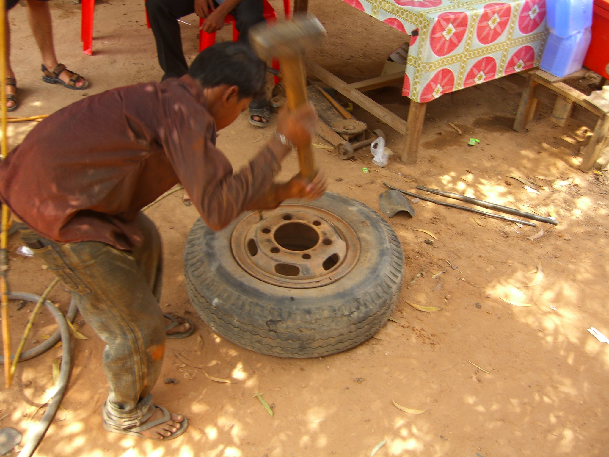 for some reason or another (nobody told us), the bus driver pulled over for about 45 minutes. looking out of the window, you could see this guy take our tire off, mess around with a blowtorch for awhile, then start beating on our tire with a sledgehammer. hey, i don't ask questions - but we got home fine, which is the bottom line.